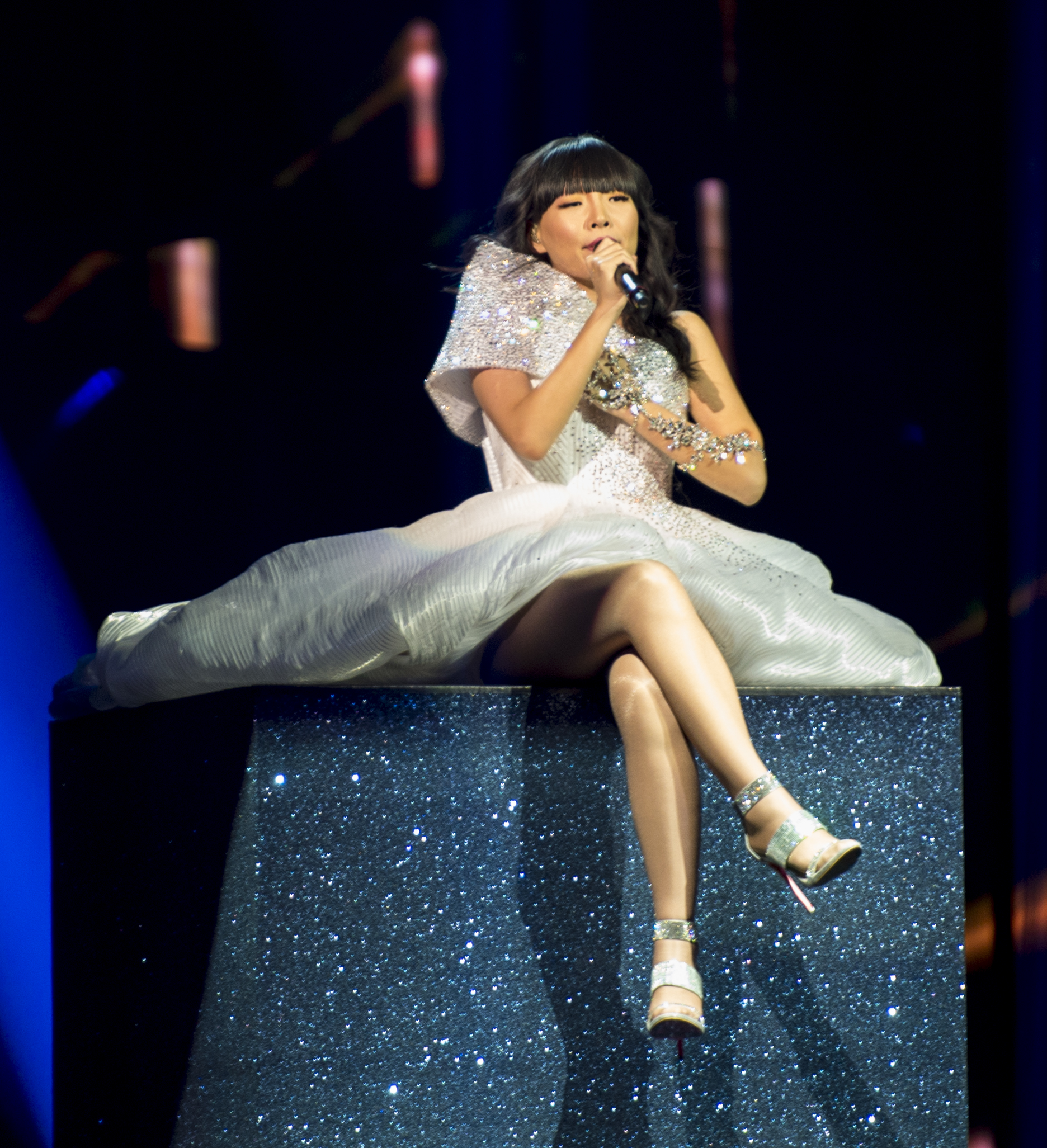 Dami Im representing Australia with the song "Sound of Silence" during a rehearsal before the second semi final of the Eurovision Song Contest 2016 in Stockholm. (Help translate this text)